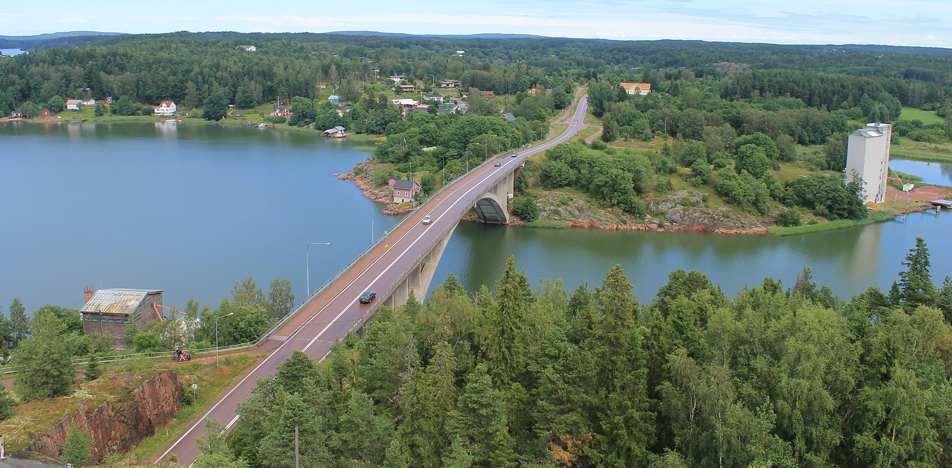 Färjsundet strait and Färjsund Bridge from Höga C tower in Finström, Åland, Finland